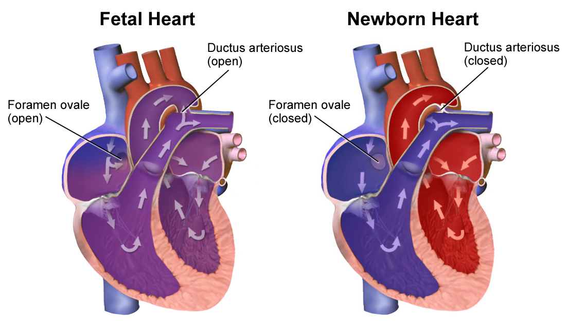 Neonatal Heart Circulation. This image was donated by Blausen Medical. Please visit our website to see more medical illustrations and animations.